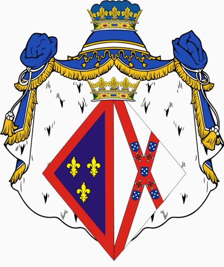 The Coat of Arms of D. Diana Álvares Pereira de Mello, 8th Duchess do Cadaval and Duchess of Anjou drawn up by, the genius, Nuno A. G. Bandeira